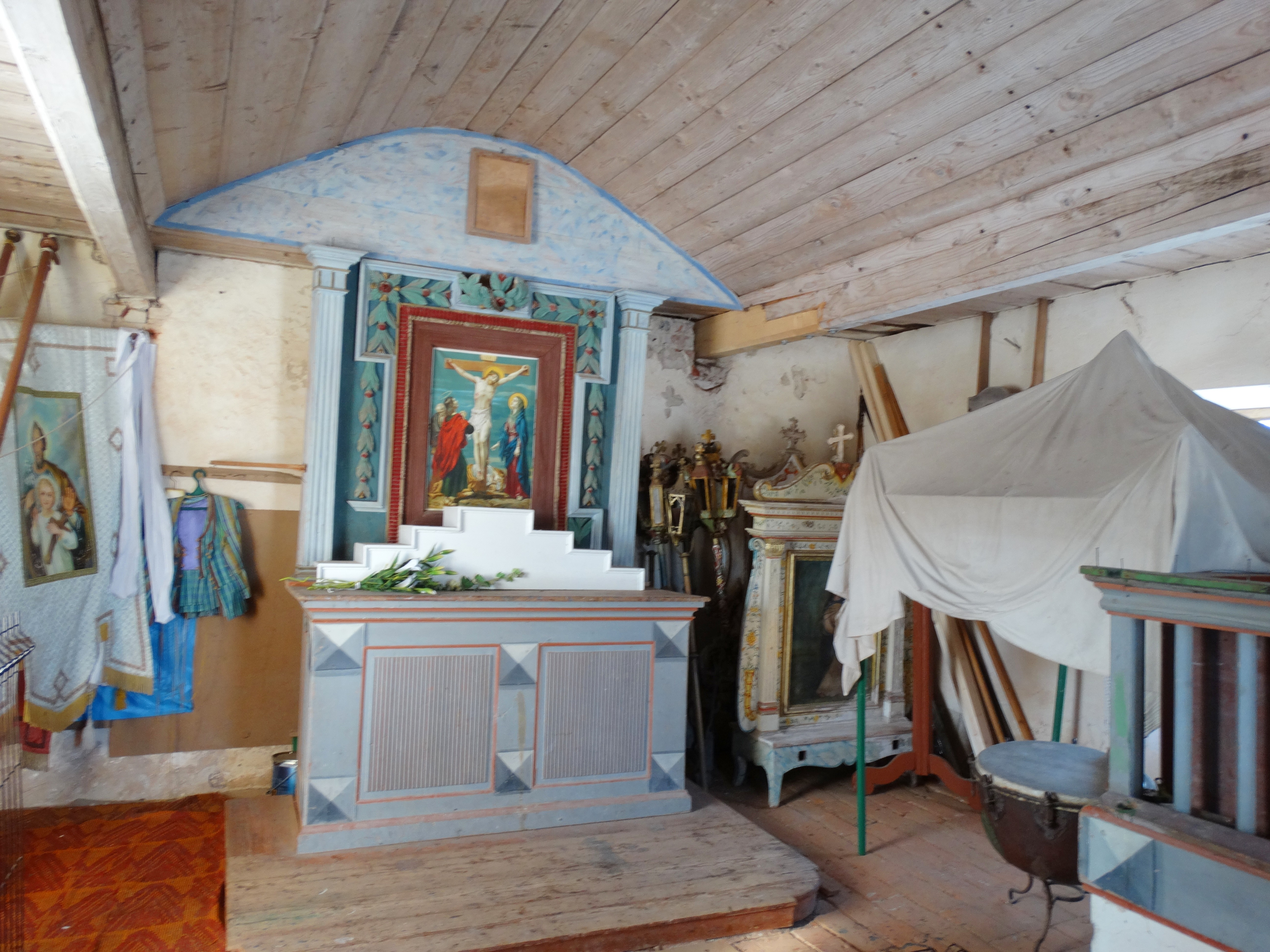 Chapel of the Holy Cross, interior, Tūbinės, Šilalė district, Lithuania